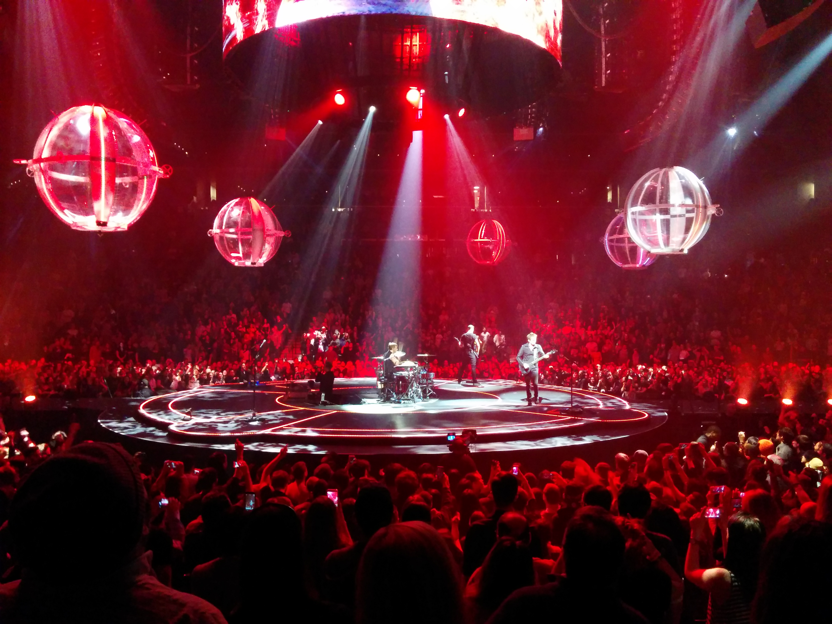 Muse concert in Brooklyn, NY